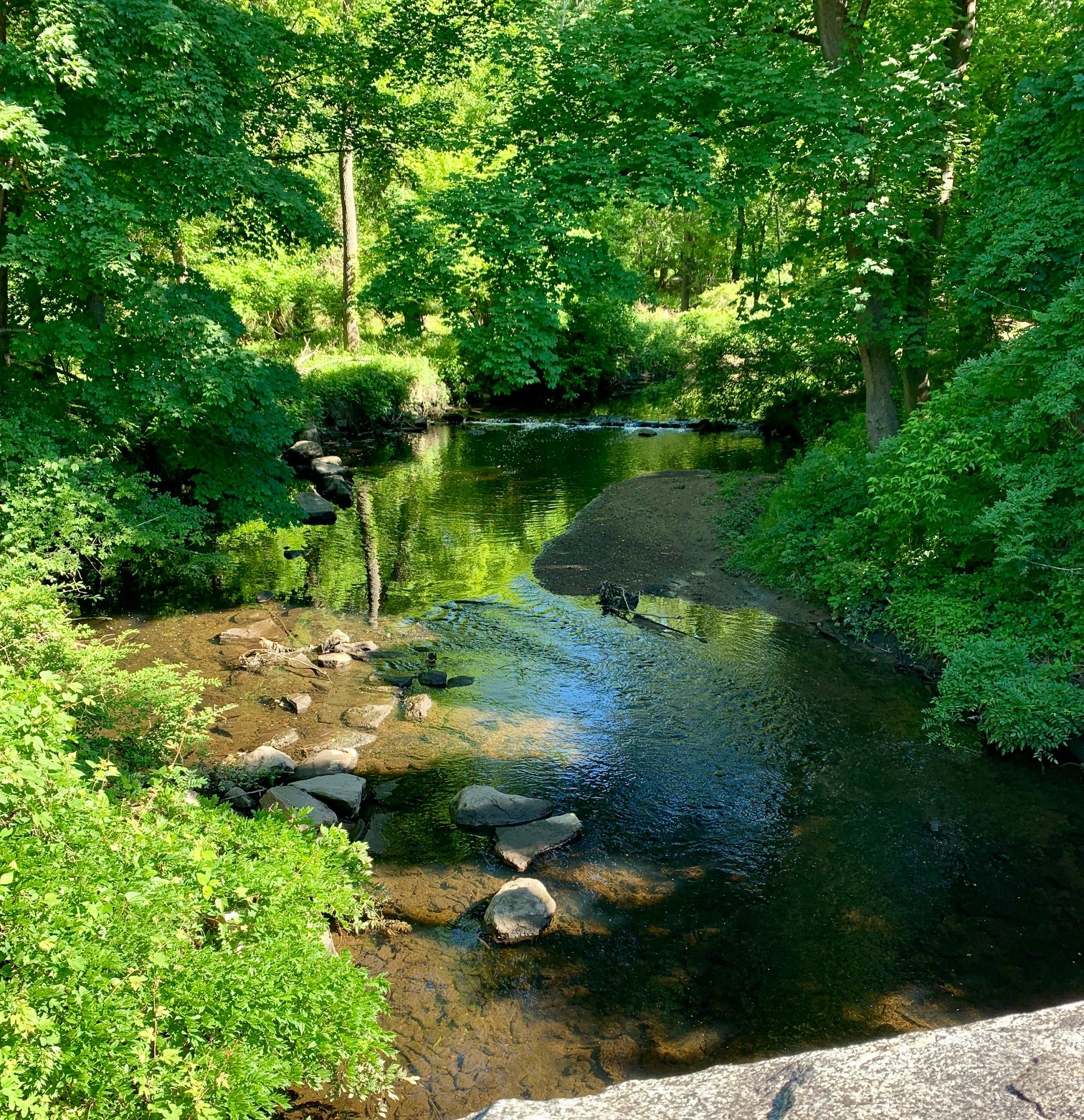 Blind Brook watershed as it passes under Boston Post Road